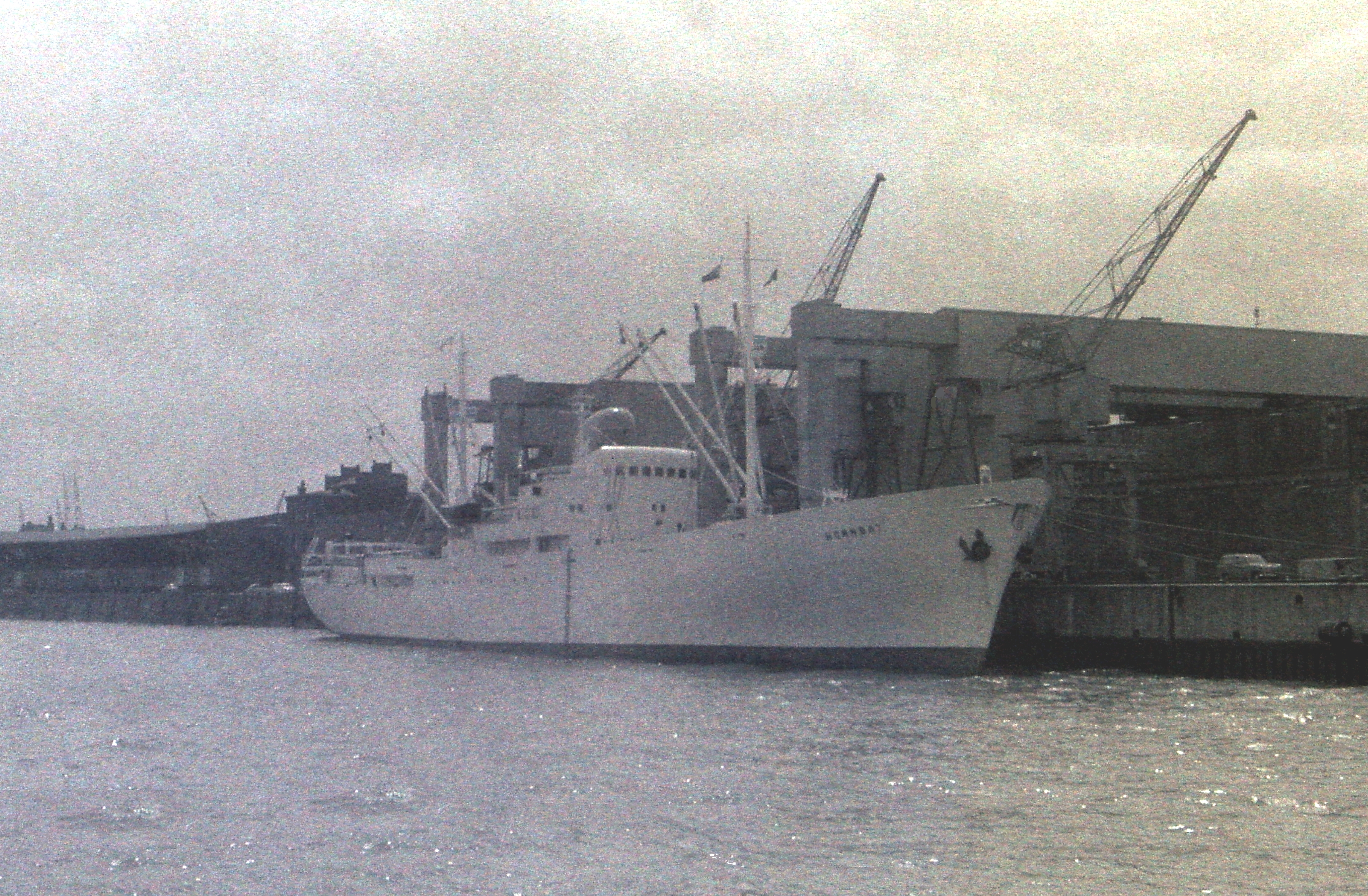 German Reefer ship Hornbay of the horn line, Hamburg, in the port of Hamburg, 1965